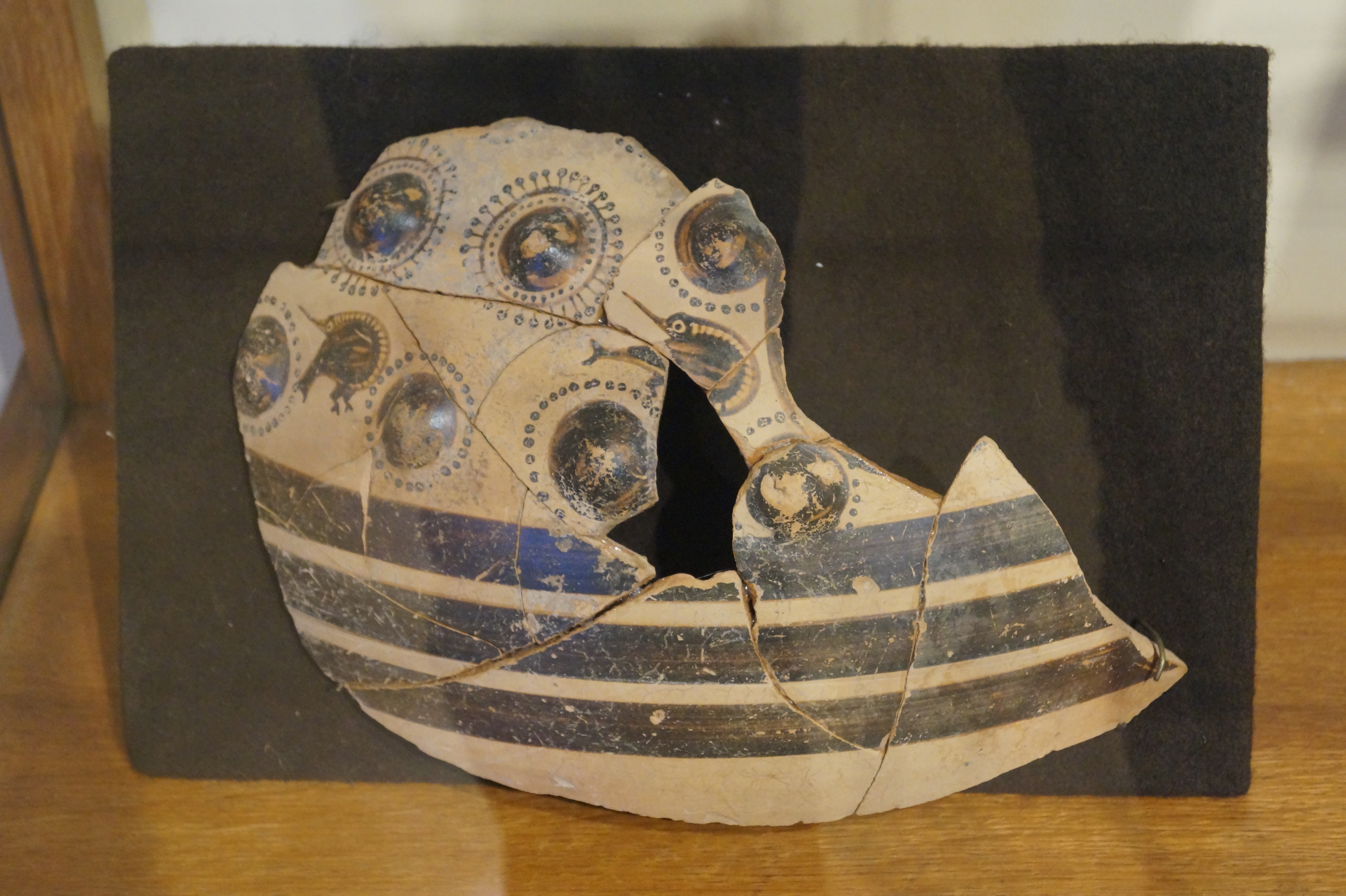 Archaeological Museum of Poros, Greece: Pottery from tomb 1 of Megali Magoula.